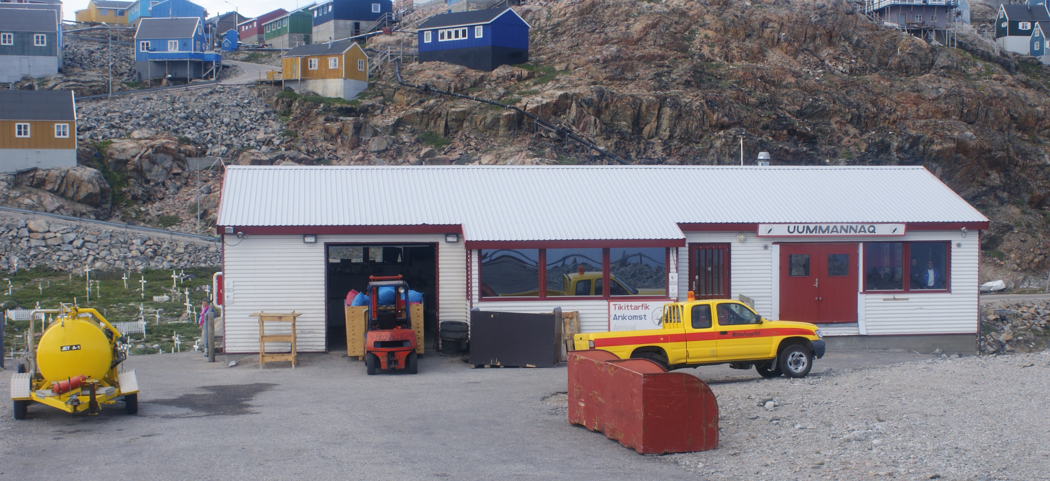 Uummannaq Heliport, Greenland. Photographed from Air Greenland Bell 212 helicopter during landing.